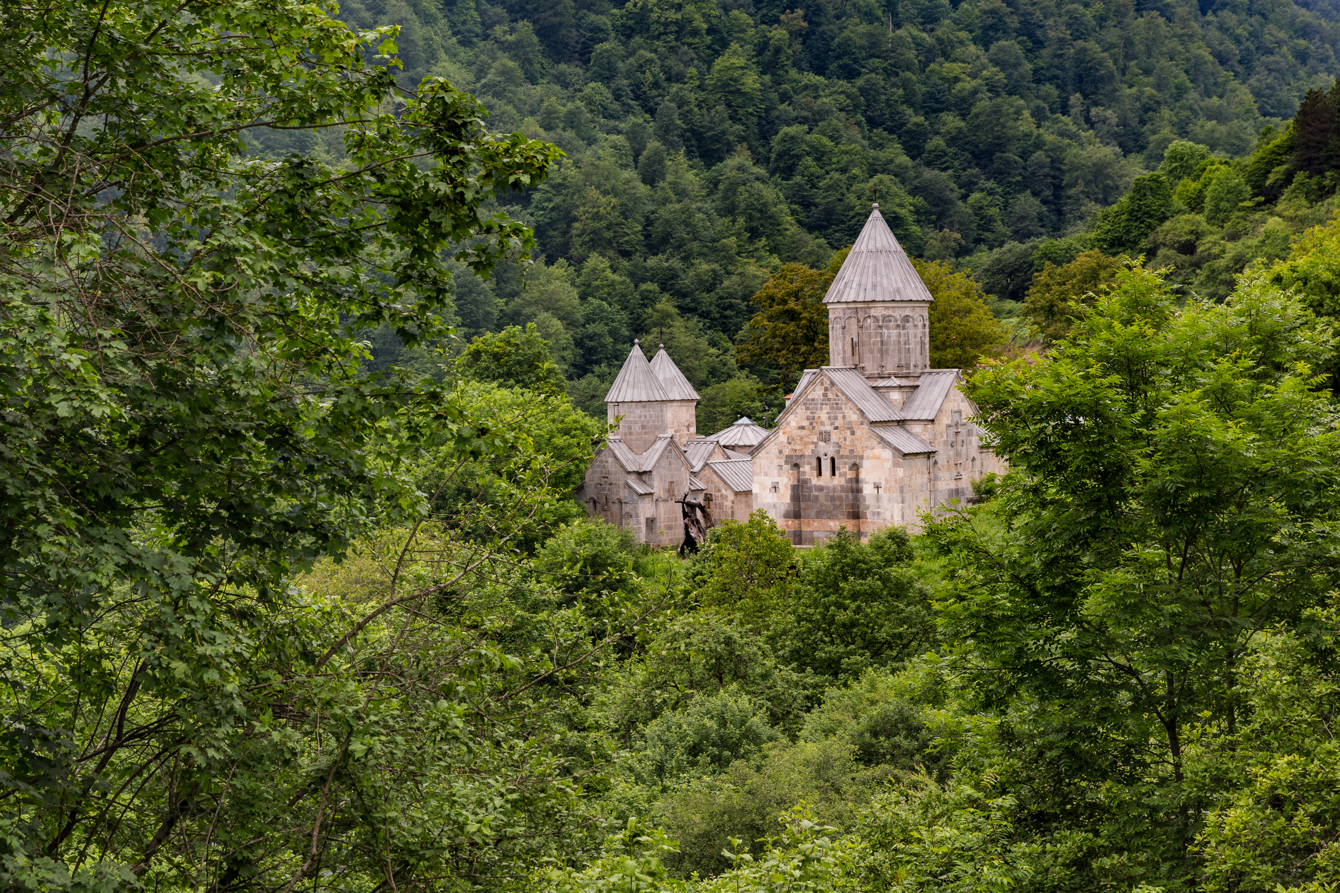 Haghartsin Monastery, Armenia. June 2016